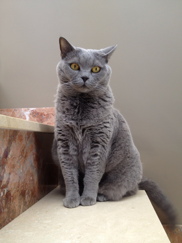 British blue cat, from British shorthair breed. Pedigreed cat.